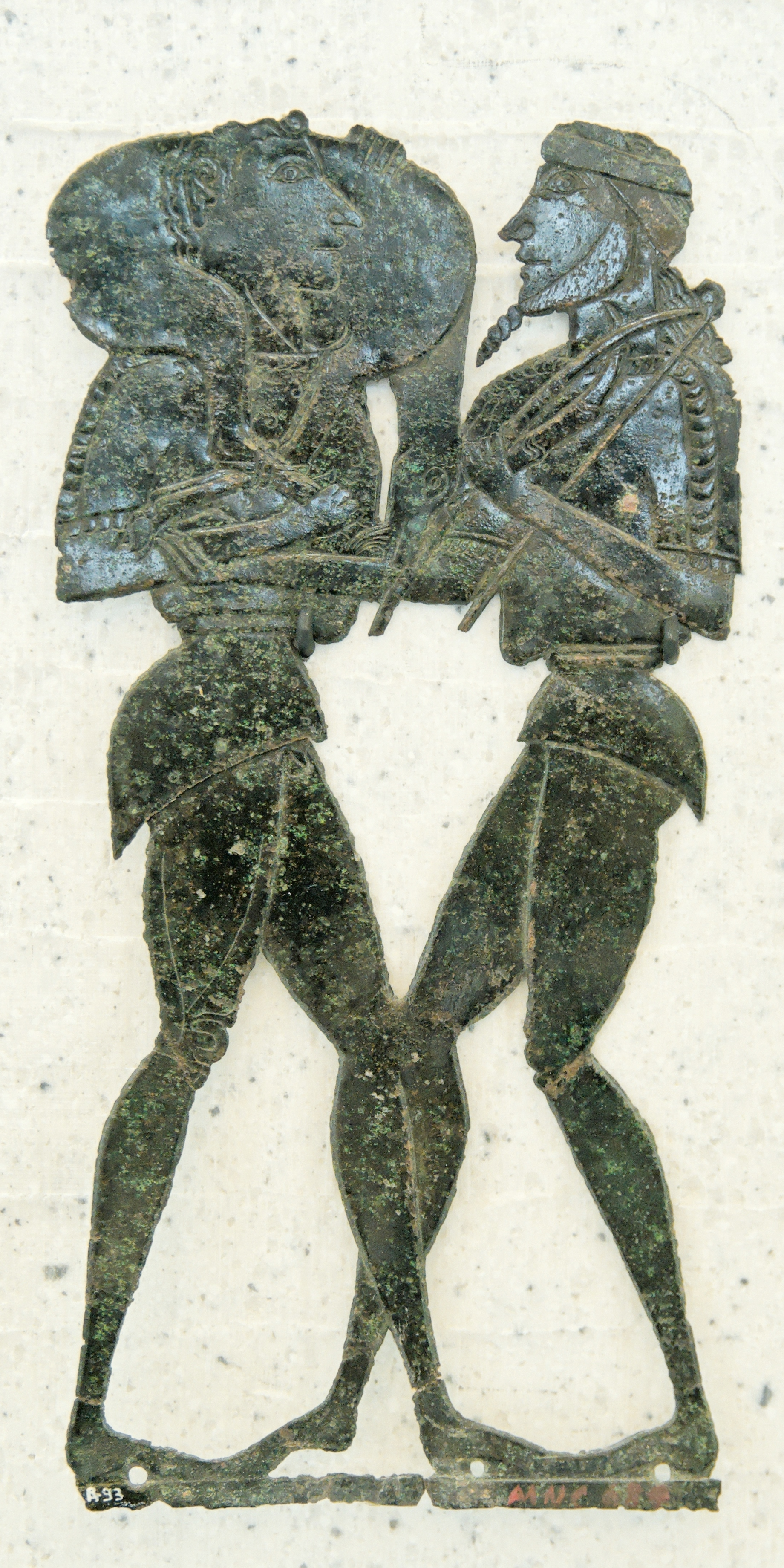 Bearded archer greeting a young hunter bearing a chamois, an offering for Hermes Kedritēs. Bronze sheet cut, embossed and chased, Cretan artwork, ca. 670–650 BC. From the Temple of Hermes at Syme Viannou, Crete.